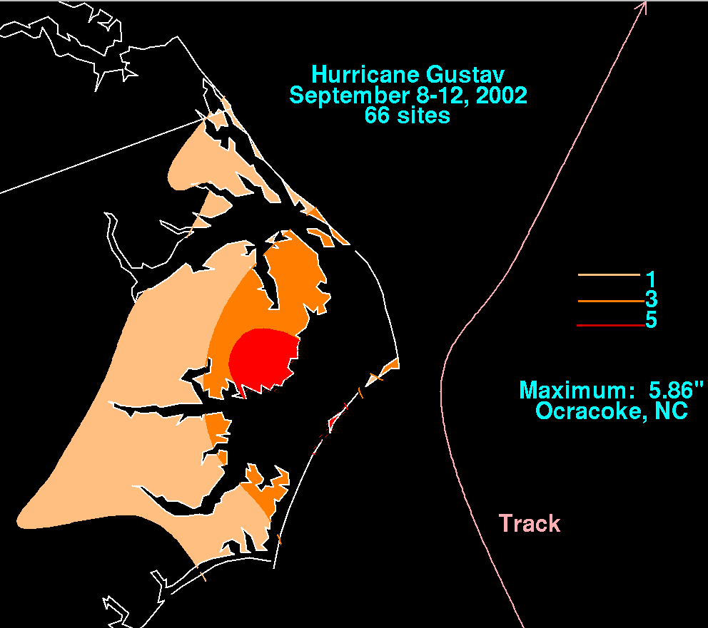 Rainfall produced by Hurricane Gustav during September 2002.